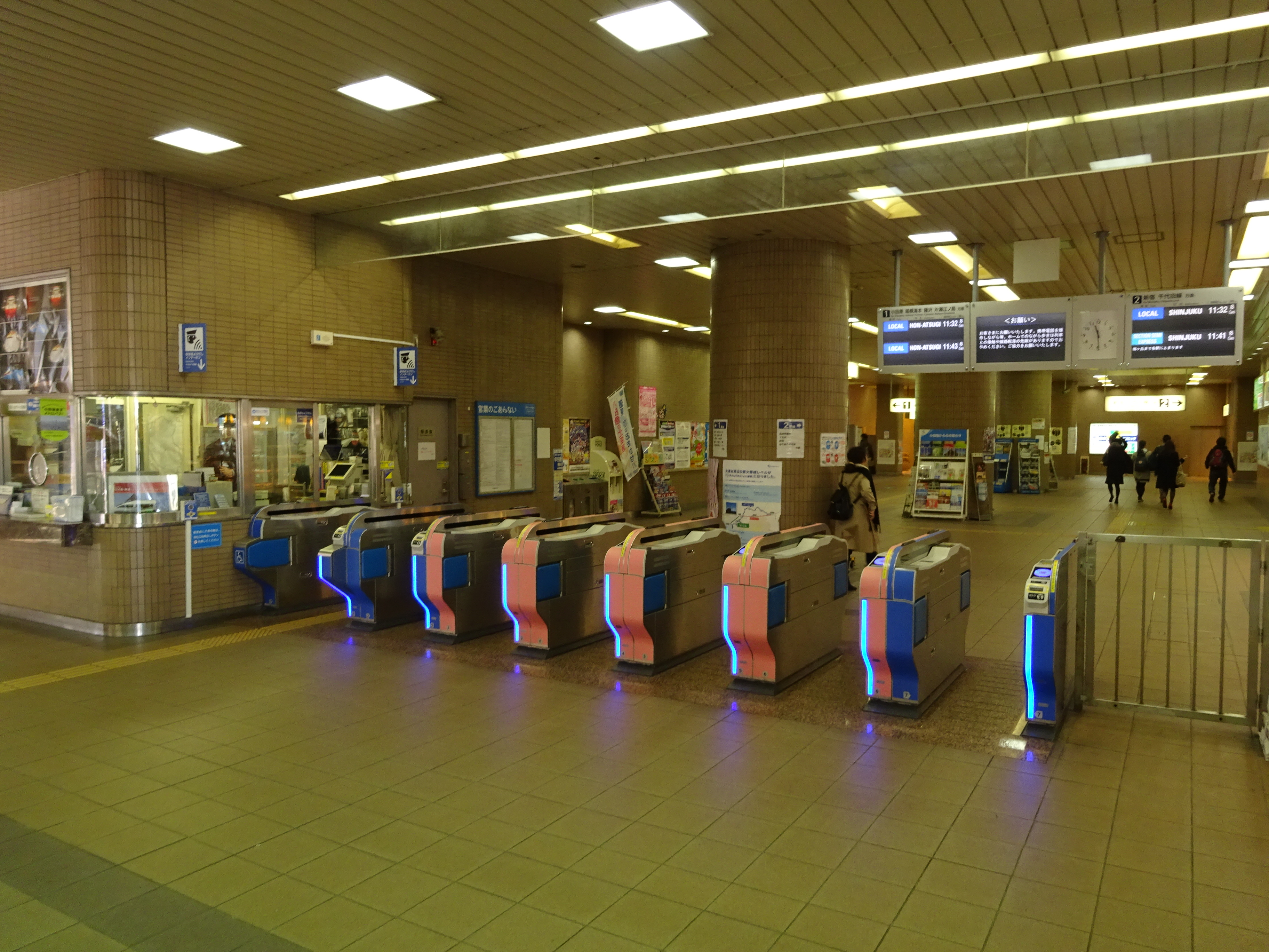 Ticket gate of Komae Station